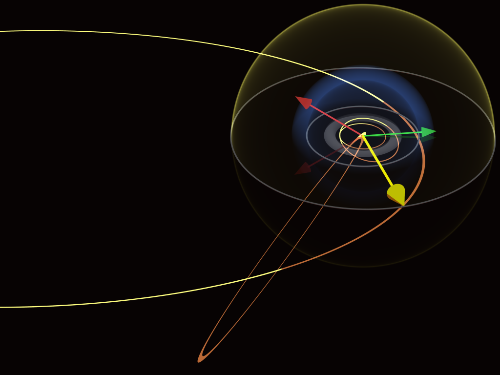 Comparison of sizes of lengths with order of magnitude 1e13m: Sedna's orbit (left); comet Hale Bopp's orbit (lower, faint orange); one light-day (yellow spherical shell with yellow Vernal point arrow as radius); the Termination Shock (blue shell); positions of Voyager 1 (red arrow) and Pioneer 10 (green arrow); Kuiper Belt (small faint gray torus); orbits of Pluto (small tilted ellipse inside Kuiper Belt) and Neptune (smallest ellipse); all to scale. No transparency version.